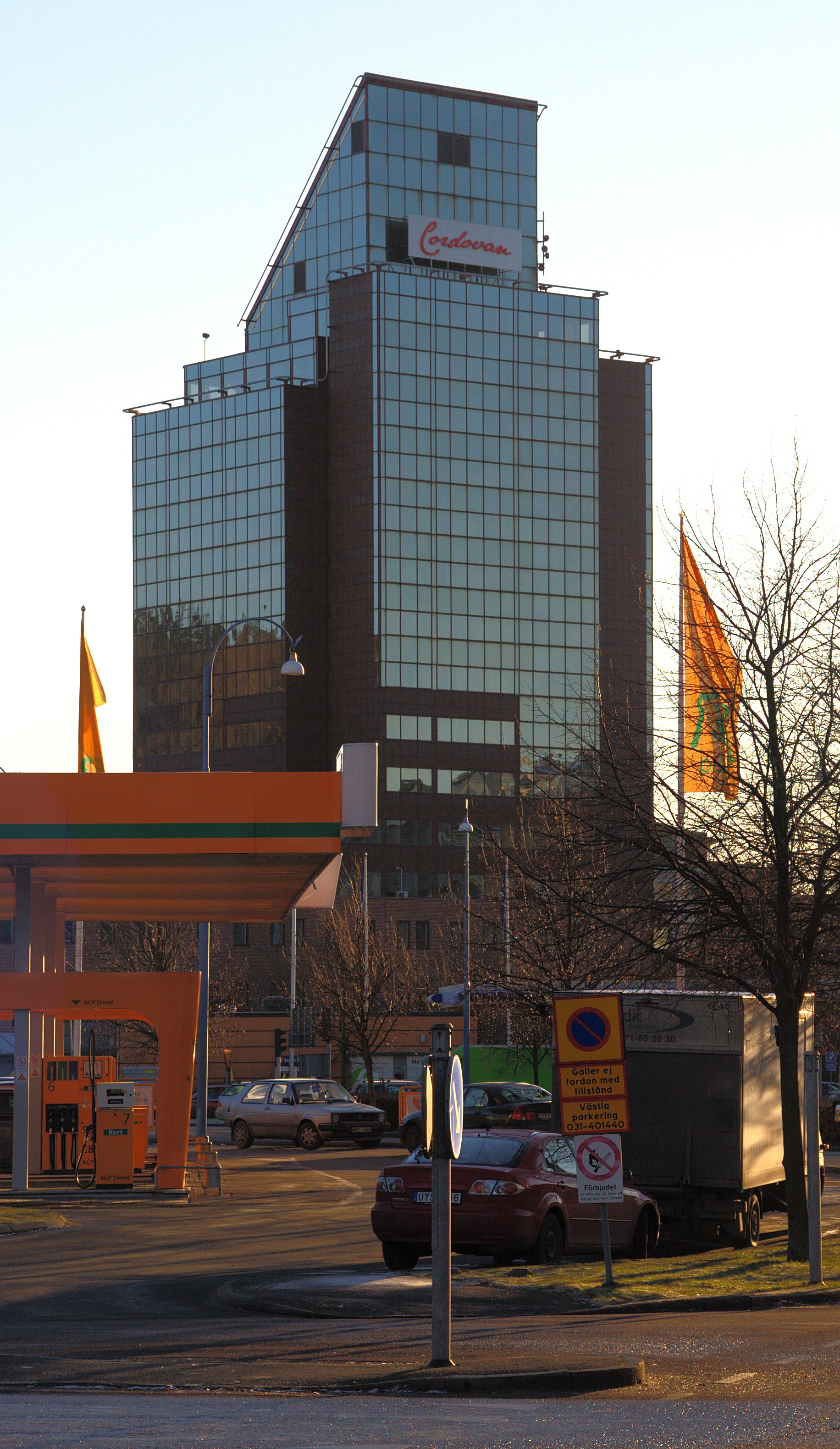 Canon Business Centre Building in Gothenburg, Sweden.